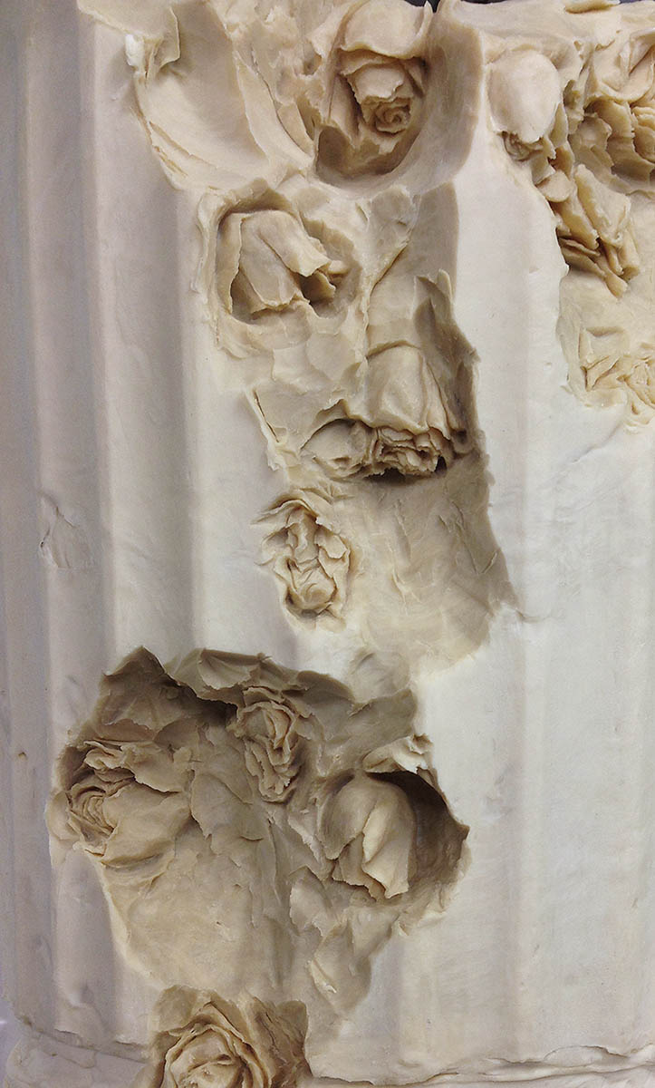 Detail, of sculpture work in progess, exposition à la Villa Saint-Cyr, Bourg-la-Reine. Soap of Marseille carved. 200 x 46 cm diam.